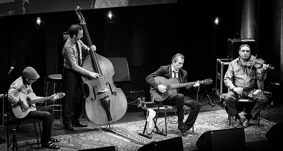 Angelo Debarre quartet performs at Cosmopolite during the Django festival 2016. From left: Ranji Debarre guitar (son of Angelo Debarre), William Brunard bass, Angelo Debarre and Marius Apostol violin